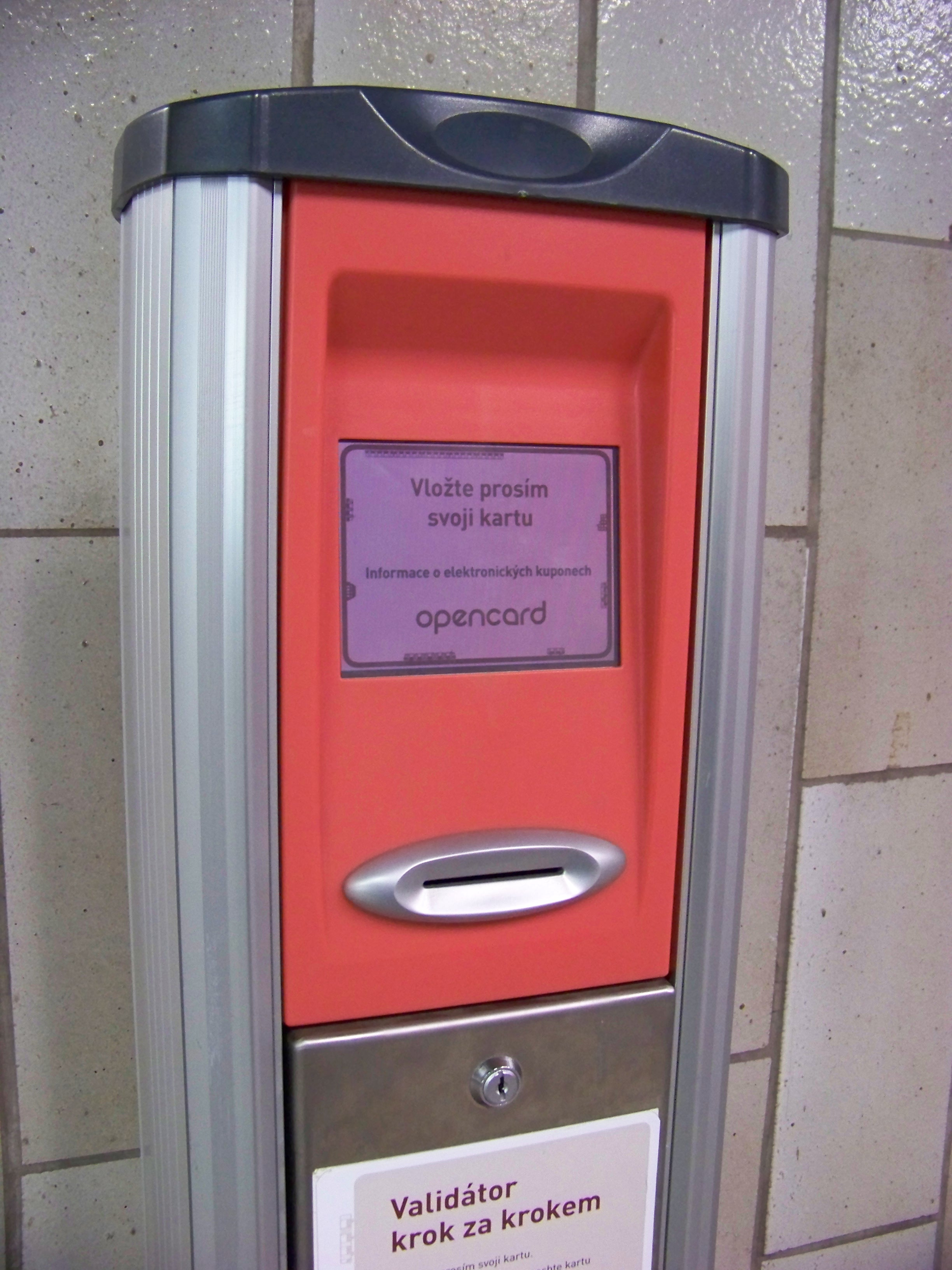 Prague-Smíchov, the Czech Republic. Smíchovské nádraží metro station, Opencard validator.